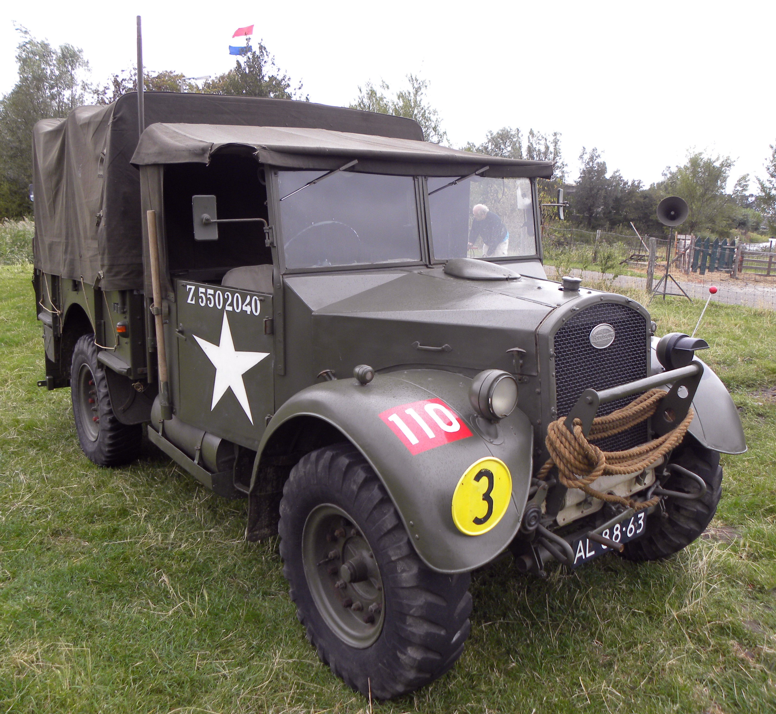 Fordson WOT 2 (?)